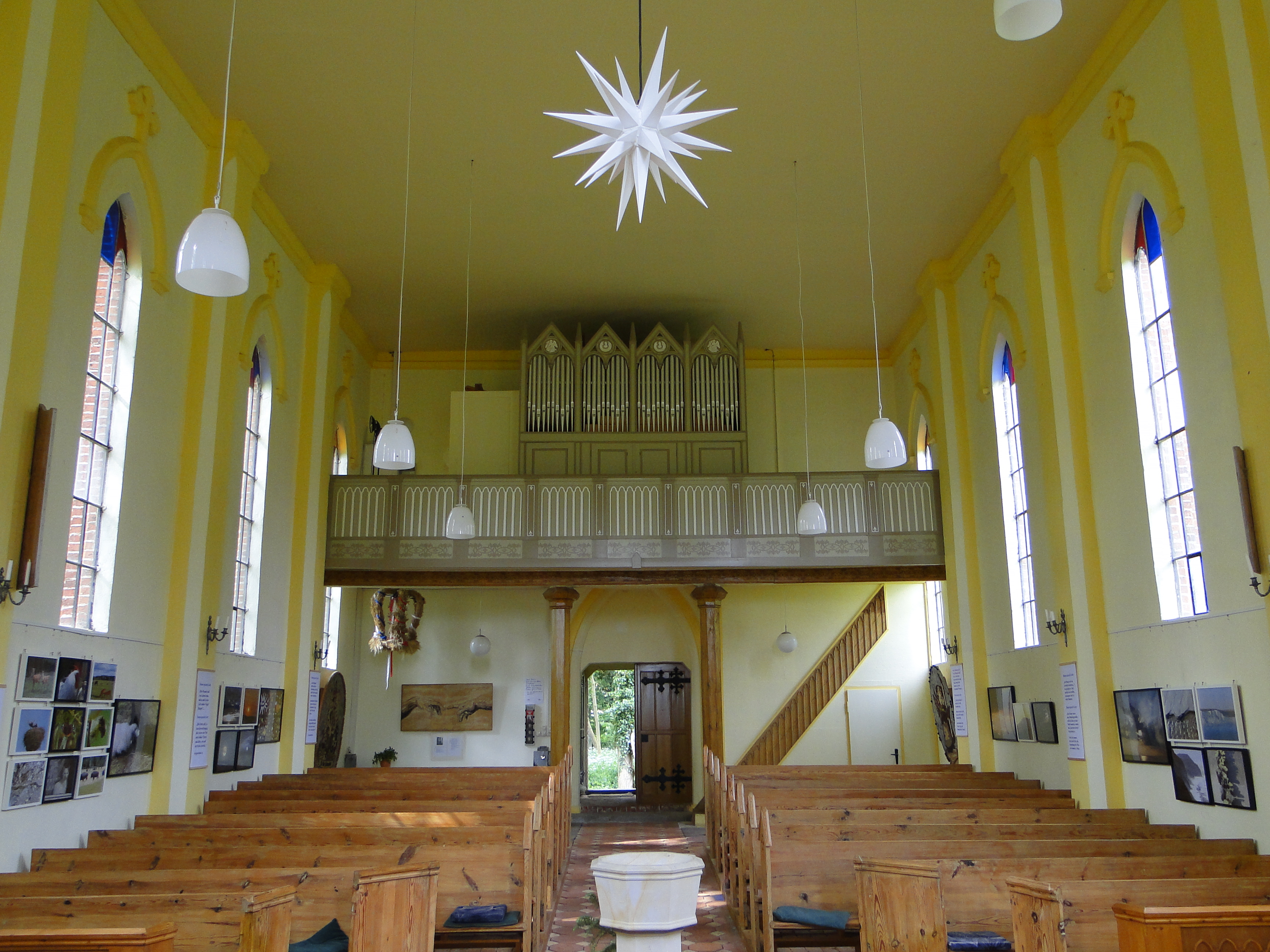 Church St. Johannis in Boek, district Mecklenburgische Seenplatte, Mecklenburg-Vorpommern, Germany